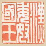 Imprint of the gold seal given by Han Dynasty Emperor Guangwu to early Japanese ruler in 57 AD, 2.2x2.2cm.